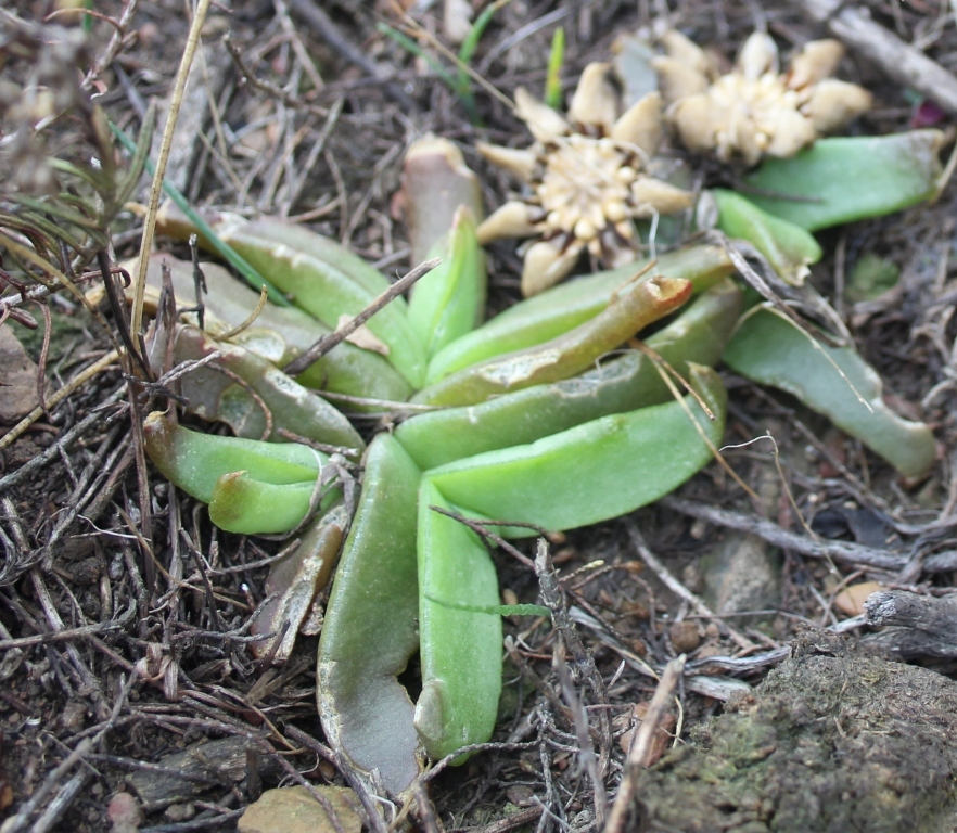 Glottiphyllum depressum with seed capsules open after rain